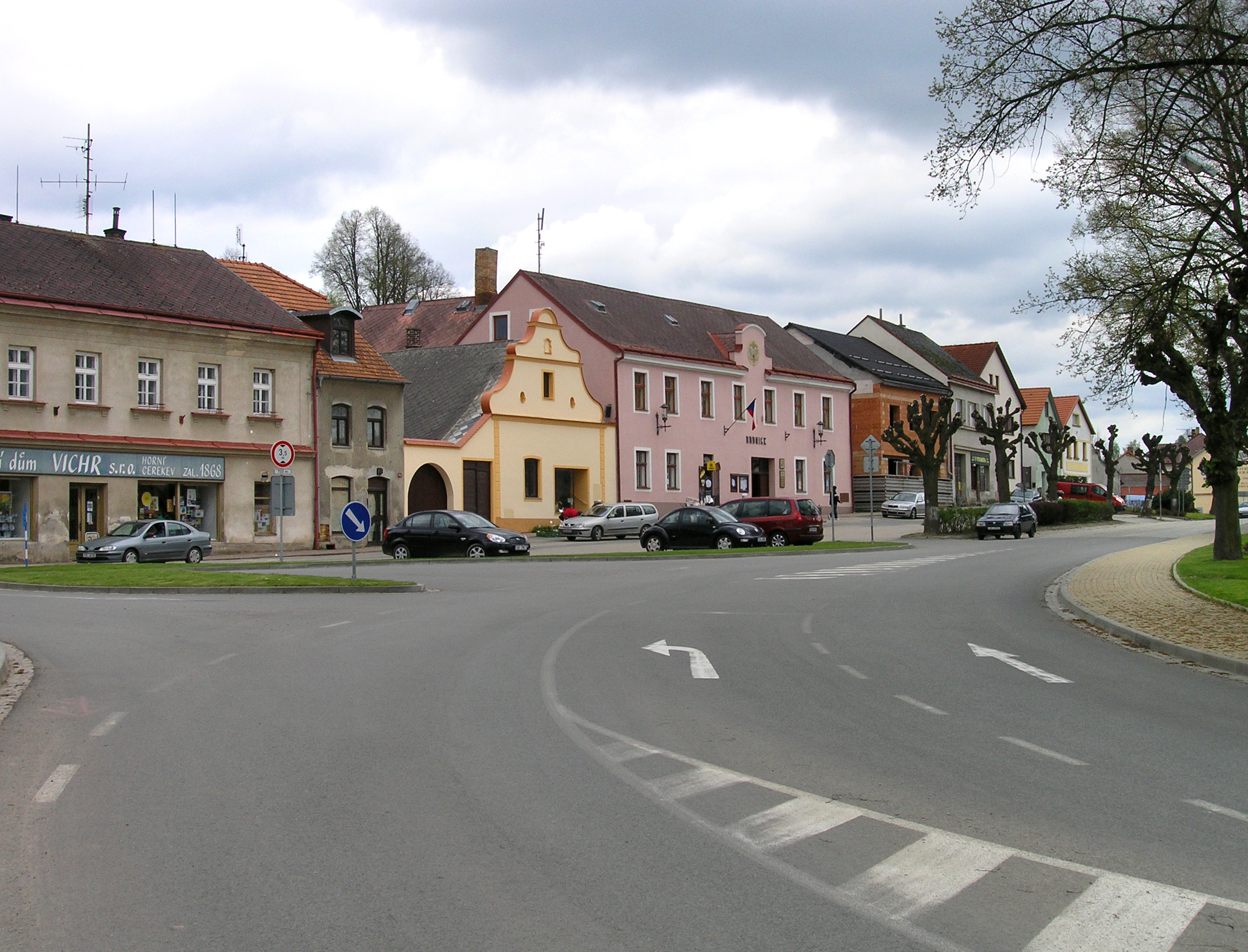 T. G. Masaryka square in Horní Cerekev, Czech Republic